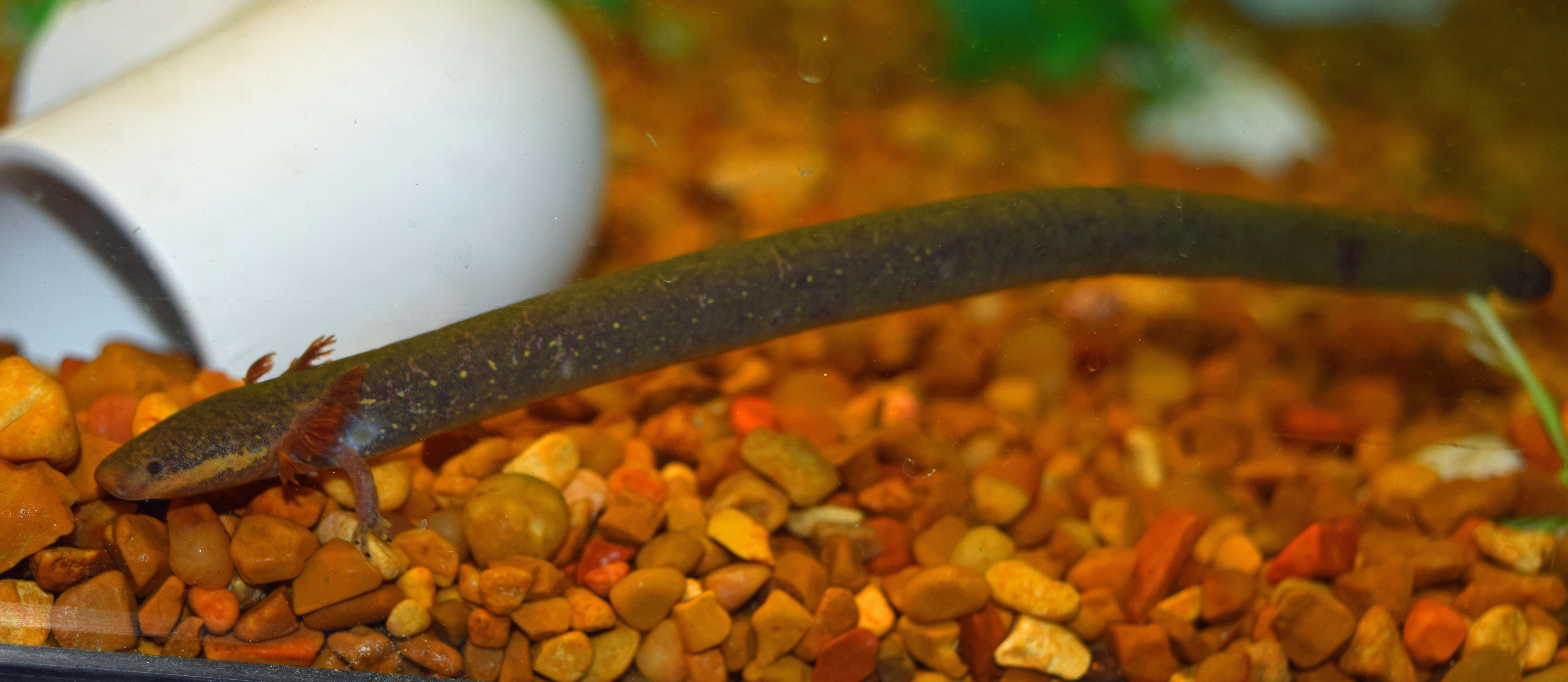 A Siren intermedia nettingi (western lesser siren) at the University of Mississippi Field Station.